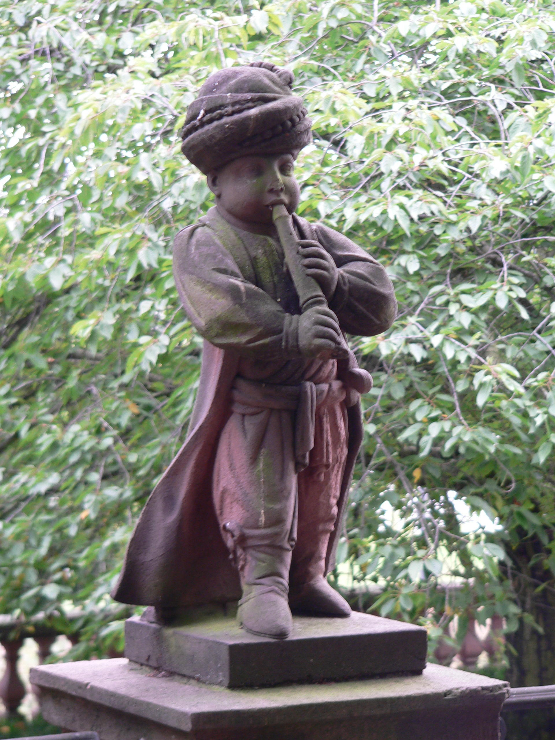 Türkenorchester auf der Ballustrade des Bolongaropalastes, Flötist